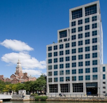 Facade of the Brown University 121 South Main Street Building, which houses the Program in Public Health, Center for Alcohol and Addiction Studies, Brown University AIDS Program, Center for Population Health and Clinical Epidemiology, International Health Institute, Center for Gerontology and Healthcare Research, Institute for Community Health Promotion, and Center for Statistical Sciences.